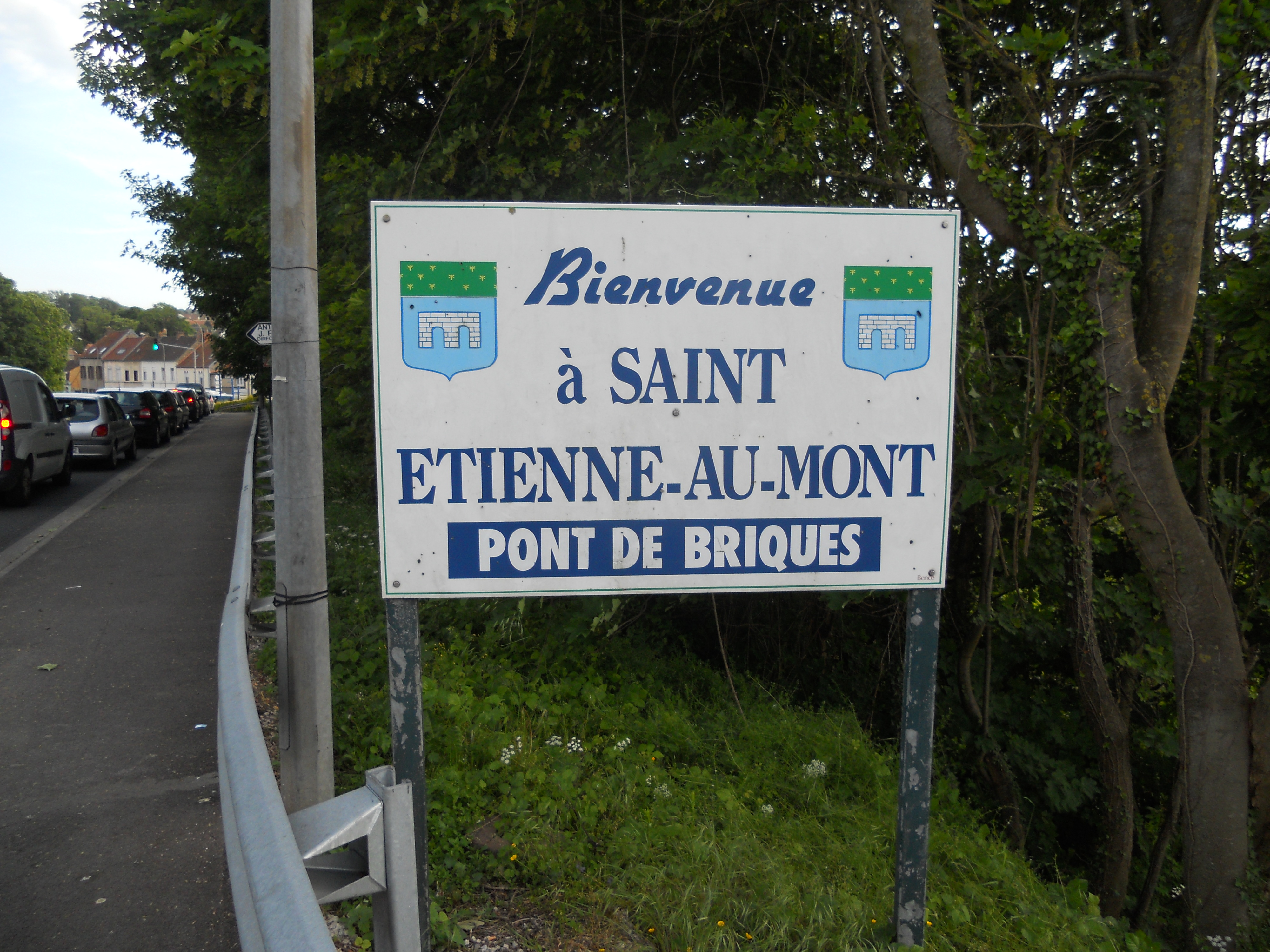 The Road sign Welcome to Saint-Etienne-au-Mont with Pont-de-Briques